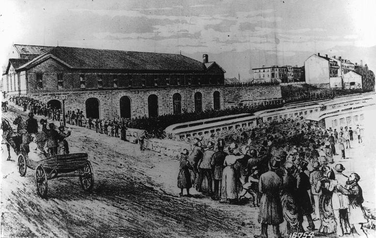 Photograph, Dalhousie Station, Montreal, QC, about 1880, lithograph by unknown artist, Anonymous, Silver salts on paper - Gelatin silver process - 16 x 21 cm